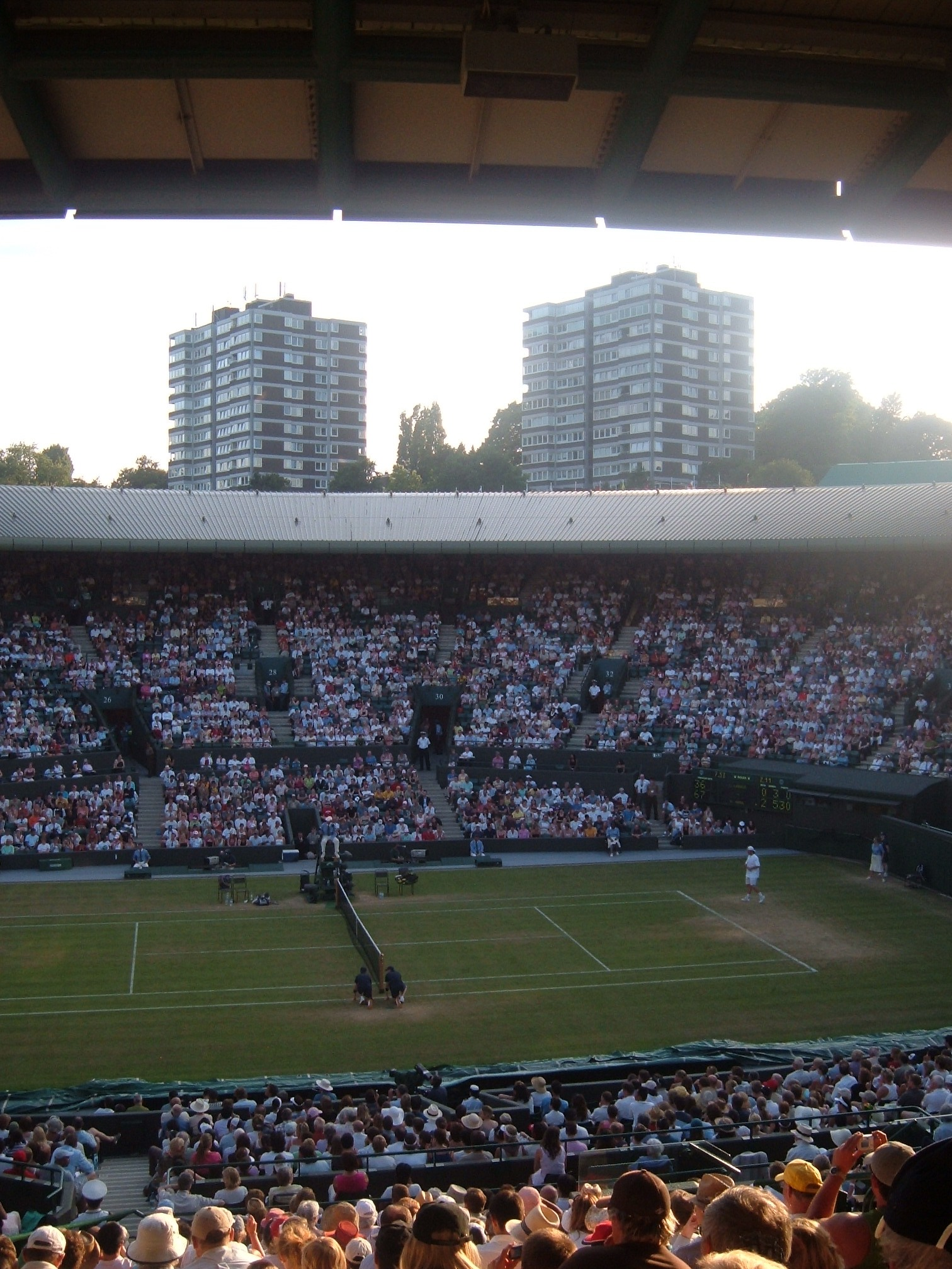 The two towerblocks that can be seen from Wimbledon, from Court No.1